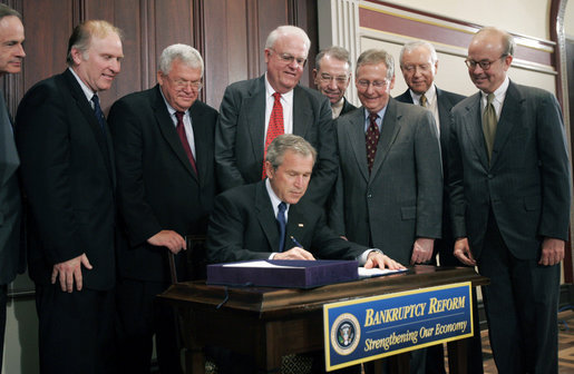 President George W. Bush signs into law S.256, the Bankruptcy Abuse Prevention and Consumer Protection Act of 2005, Wednesday, April 20, 2005, at the Eisenhower Executive Office Building. Watching on, from left are: Senator Tom Carper, D-Del.; Congressman Steve Chabot, R-Ohio; House Speaker Dennis Hastert, R-Ill.; Congressman Jim Sensenbrenner, Jr., R-Wis., Chairman of the Judiciary Committee; Senator Chuck Grassley, R-Iowa, chairman of the Finance Committee; Senator Mitch McConnell, R-Ky.; Majority Whip Senator Orrin Hatch, R-Utah, and Congressman Rick Boucher, D-Va. White House photo by Paul Morse.